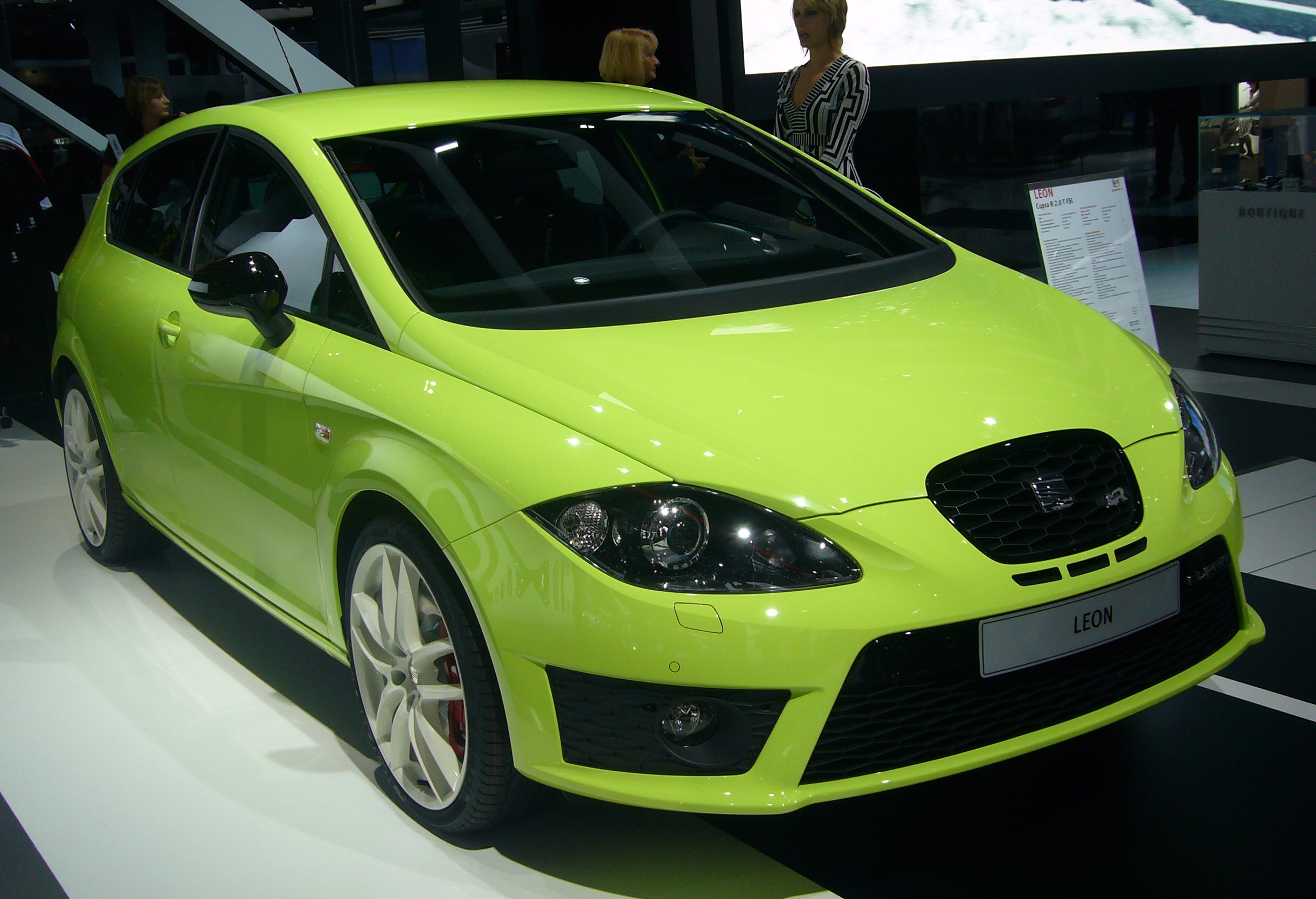 Seat Leon Cupra R at IAA Frankfurt 2009